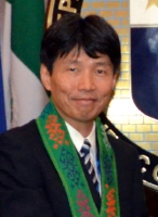 Ichita Yamamoto, Minister of State for Okinawa and Northern Territories Affairs, shook hands with Voltaire Gazmin, Secretary of National Defense, in Philippines on September 5, 2013.